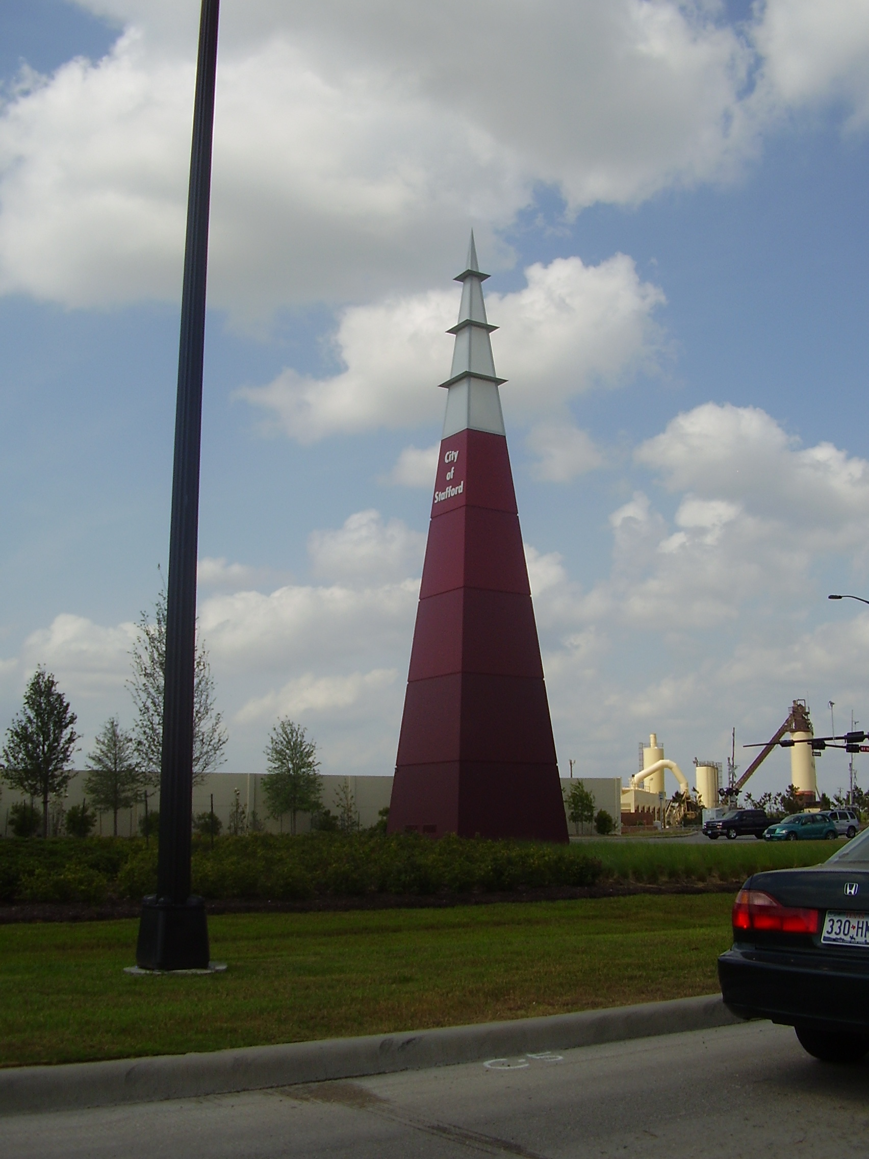 Pillar in Stafford, Texas